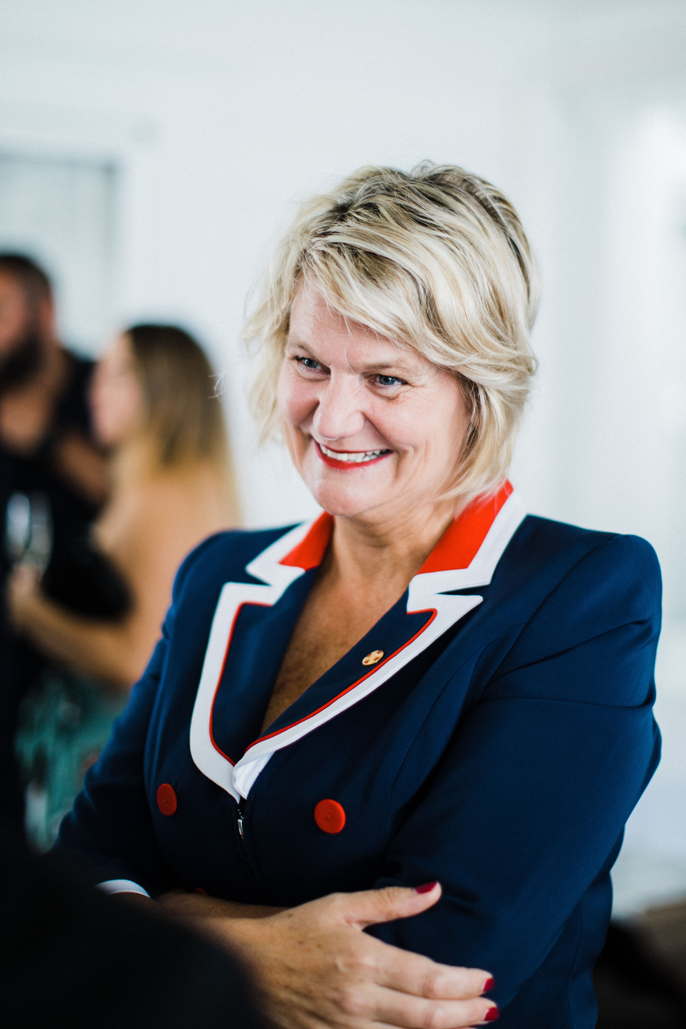 Sarah Trotman, ONZM. NZ Wedding Celebrant.